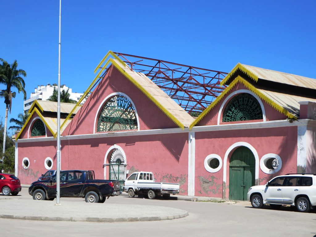 The Museu Nacional de Arqueologia in Benguela, Angola, is housed in an 18th century waterfront warehouse where slaves were held before being shipped to Brazil.